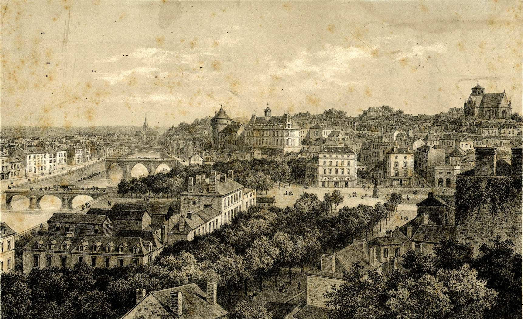 View of Laval, France, in the second half of the 19th century. The view is taken from the viaduct and shows the river Mayenne, the castle, the cathedral and the main square (today called place 11-Novembre).